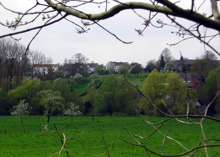 Bassenge, Belgium. View of Spring landscape in the Jeker valley near Eben-Emael.